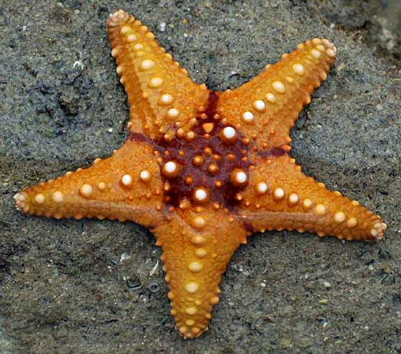 Unknown starfish showing fivefold symmetry